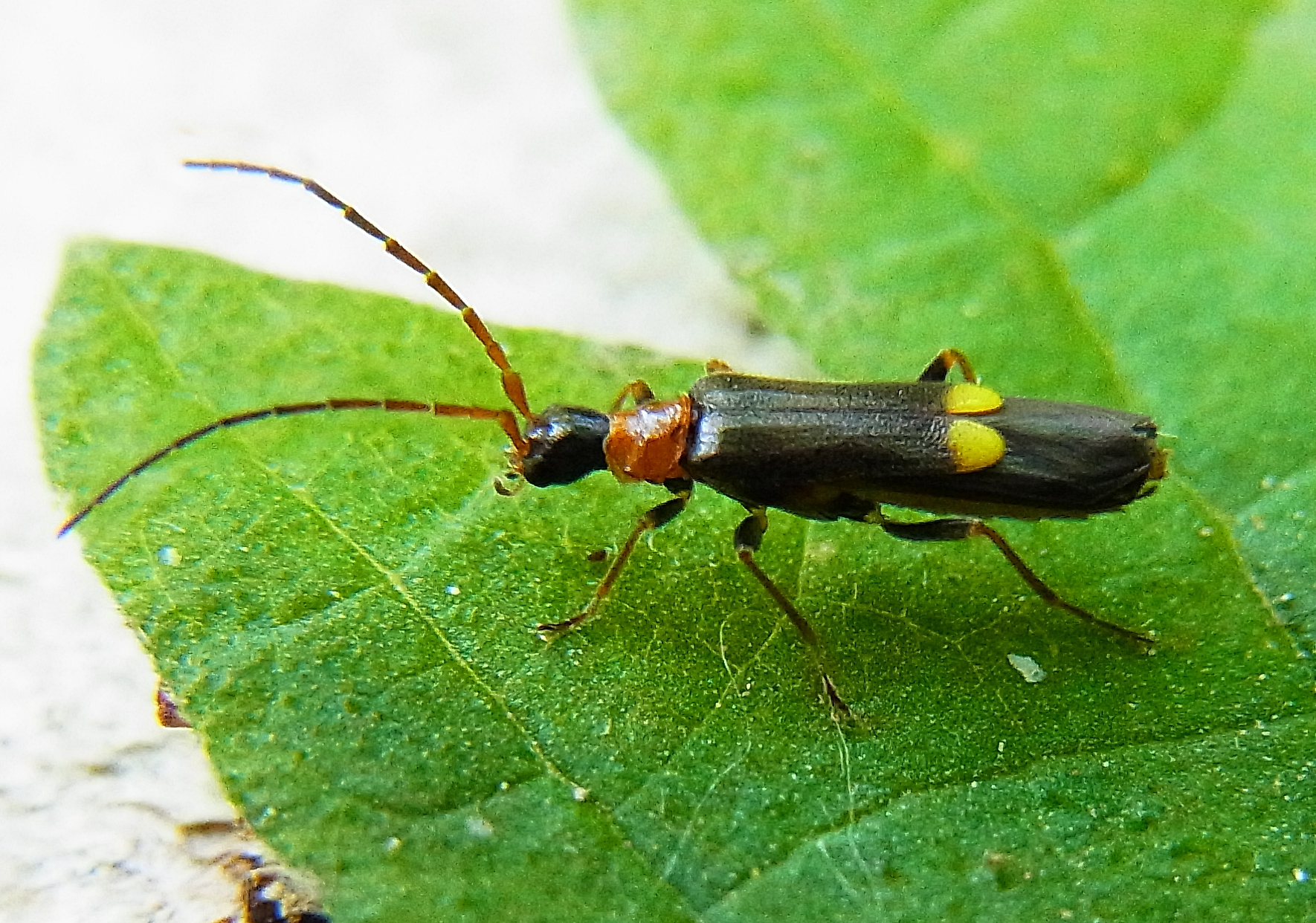 Malthodes minimus from Hungary, south of Mohács near river Duna at 2012-05-18